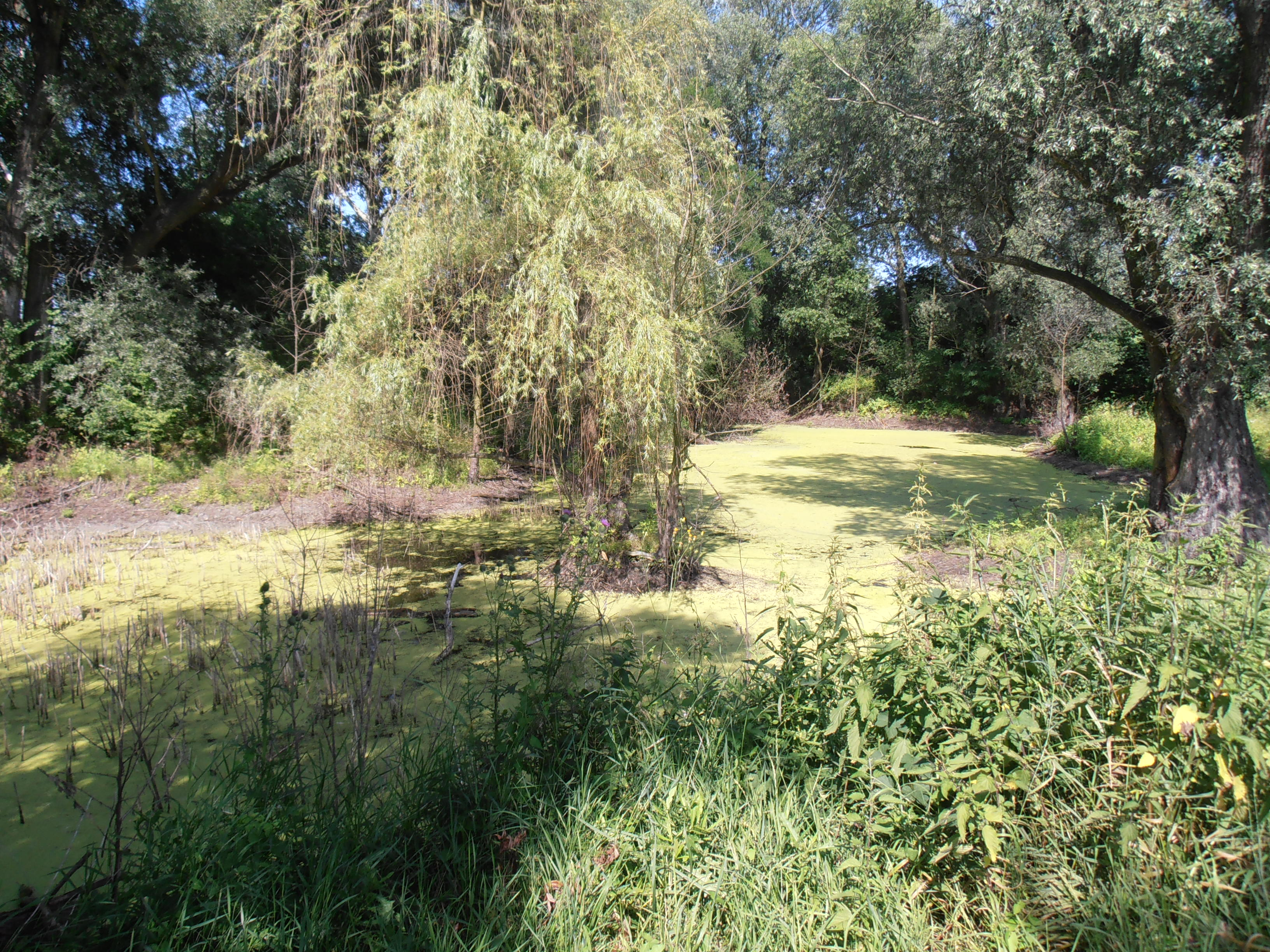 Bázlers sandpit,small lake